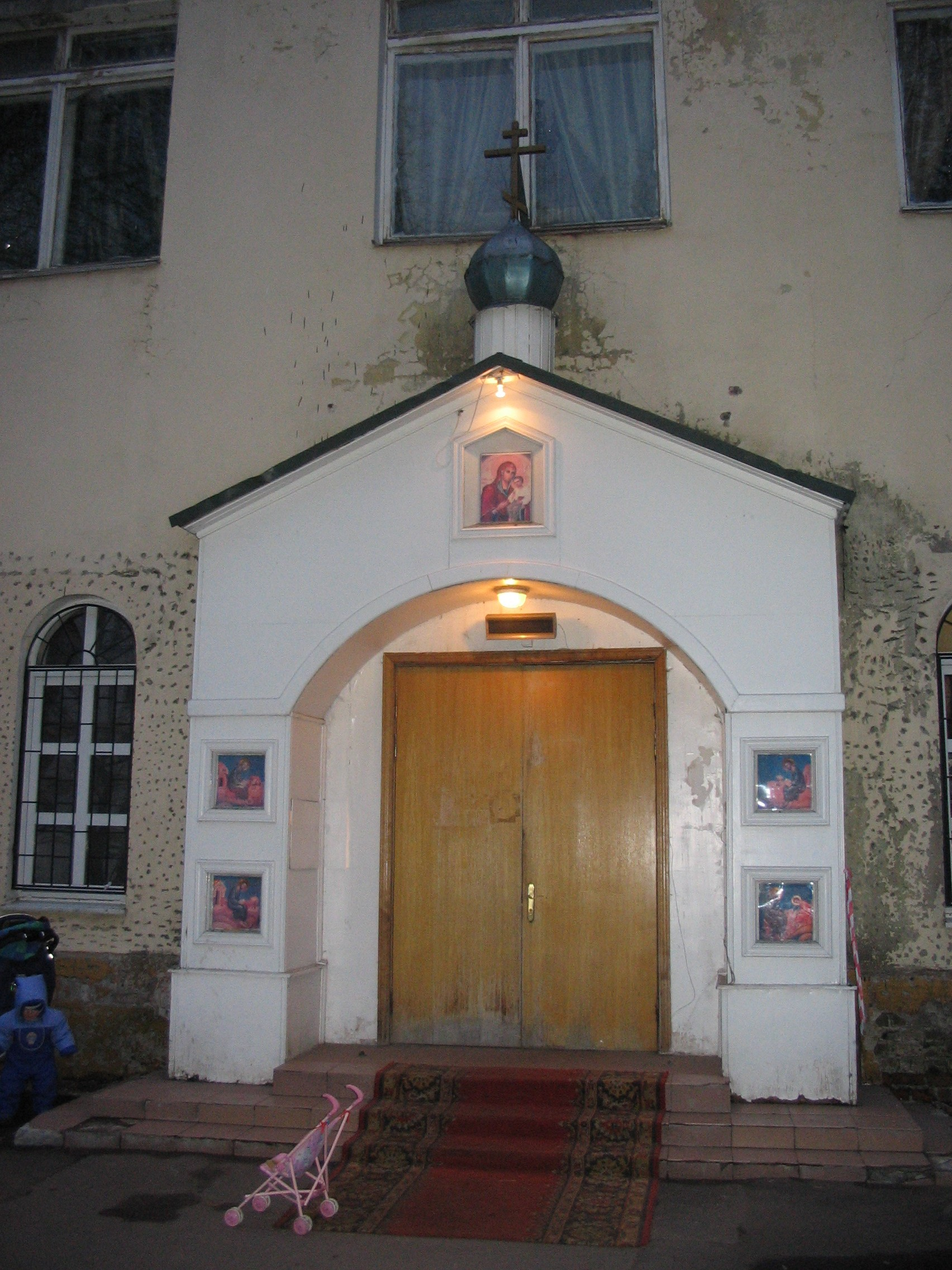 Church of the Peschanaya Kazan icon of the Theotokos in Izmaylovo